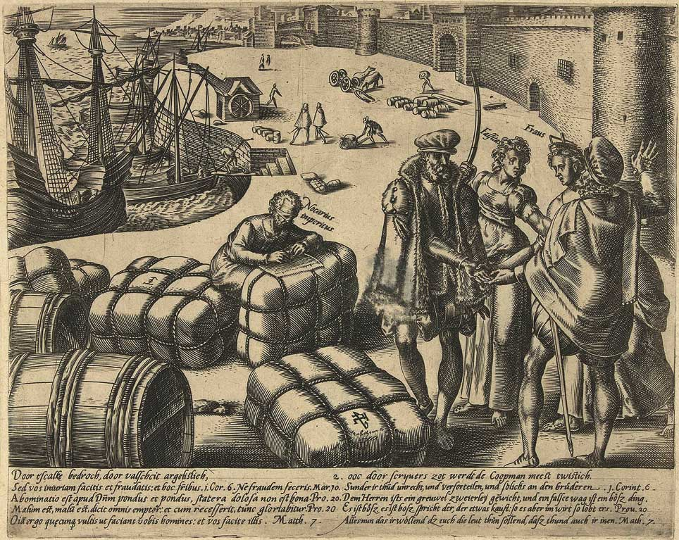 Part of the series {name }.